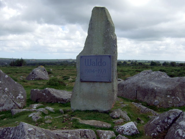 Cofio/remembering Waldo Williams The upright bluestone on Rhos Fach near Mynachlogddu was erected in memory of the great Welsh Nationalist, poet, pacifist, and Quaker who lived and taught in the area. See Waldo_Williams